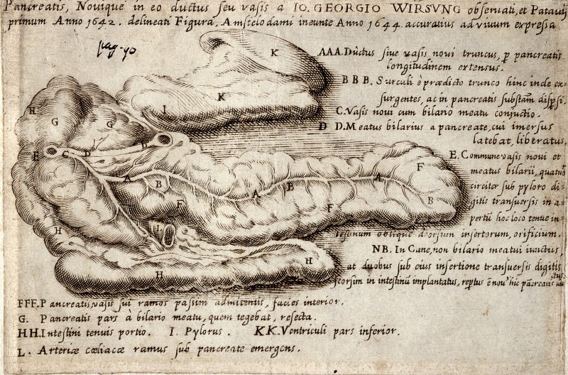 The pancreas and the pancreatic duct. Engraving after J.G. Wirsung, 1644.